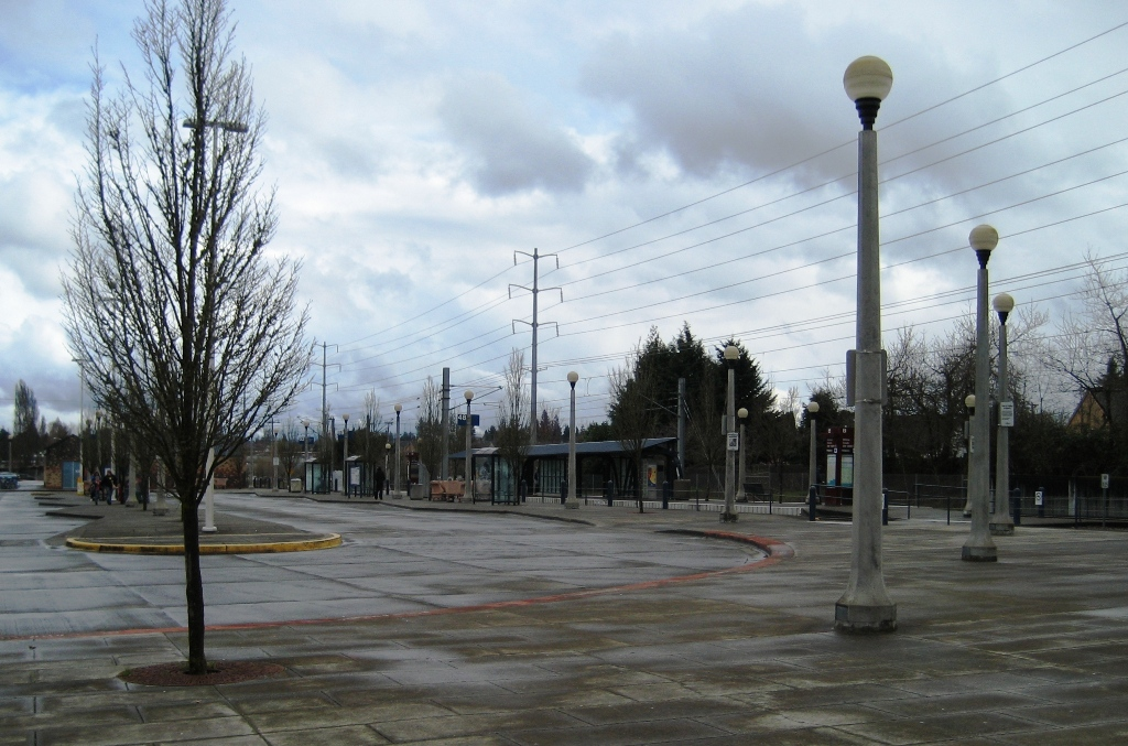 Willow Creek/Southwest 185th Avenue Transit Center MAX station in eastern Hillsboro, Oregon